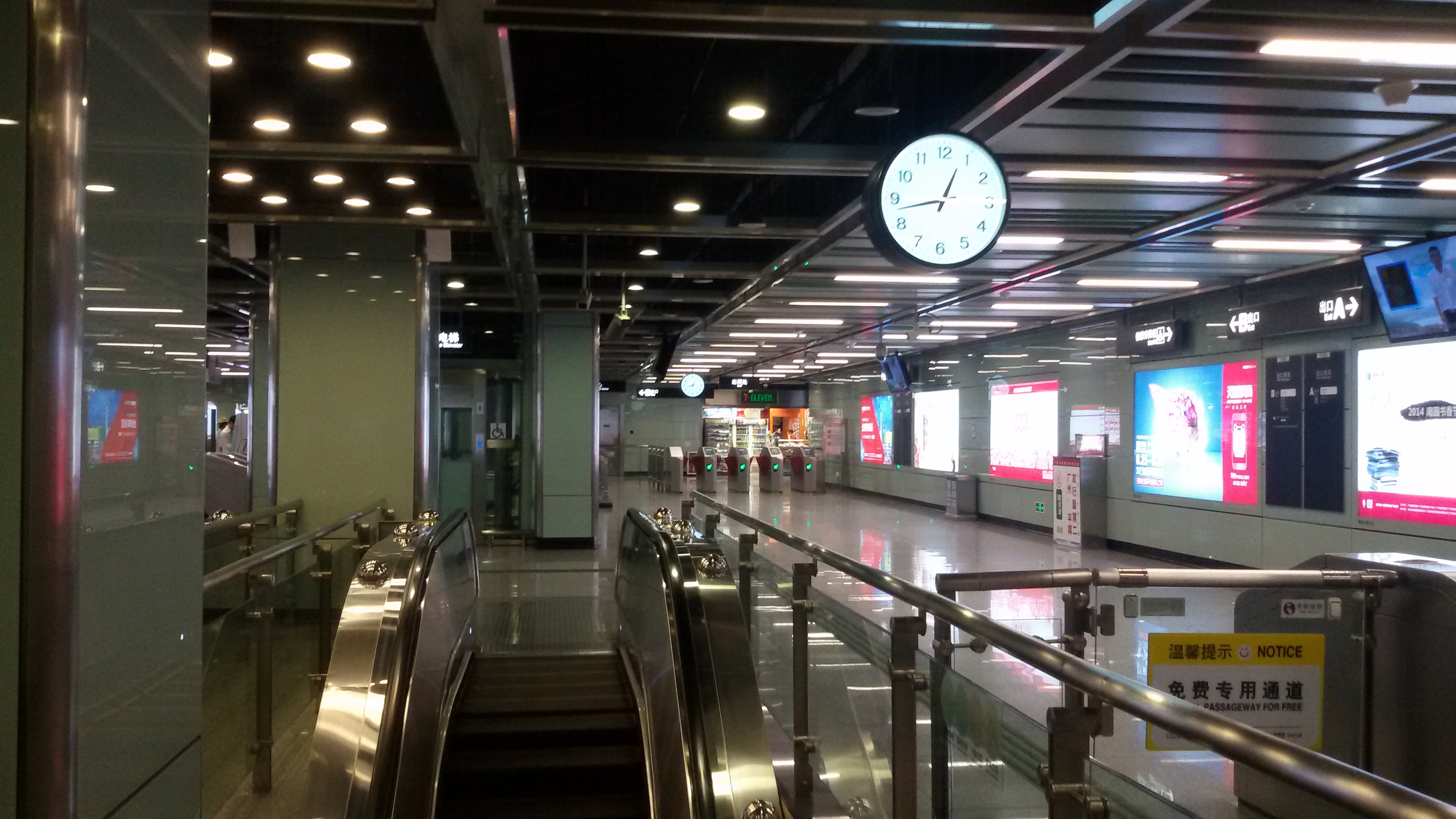 Station Concourse for Hesha Station, Guangzhou Metro. 粵語: 河沙站嘅站廳